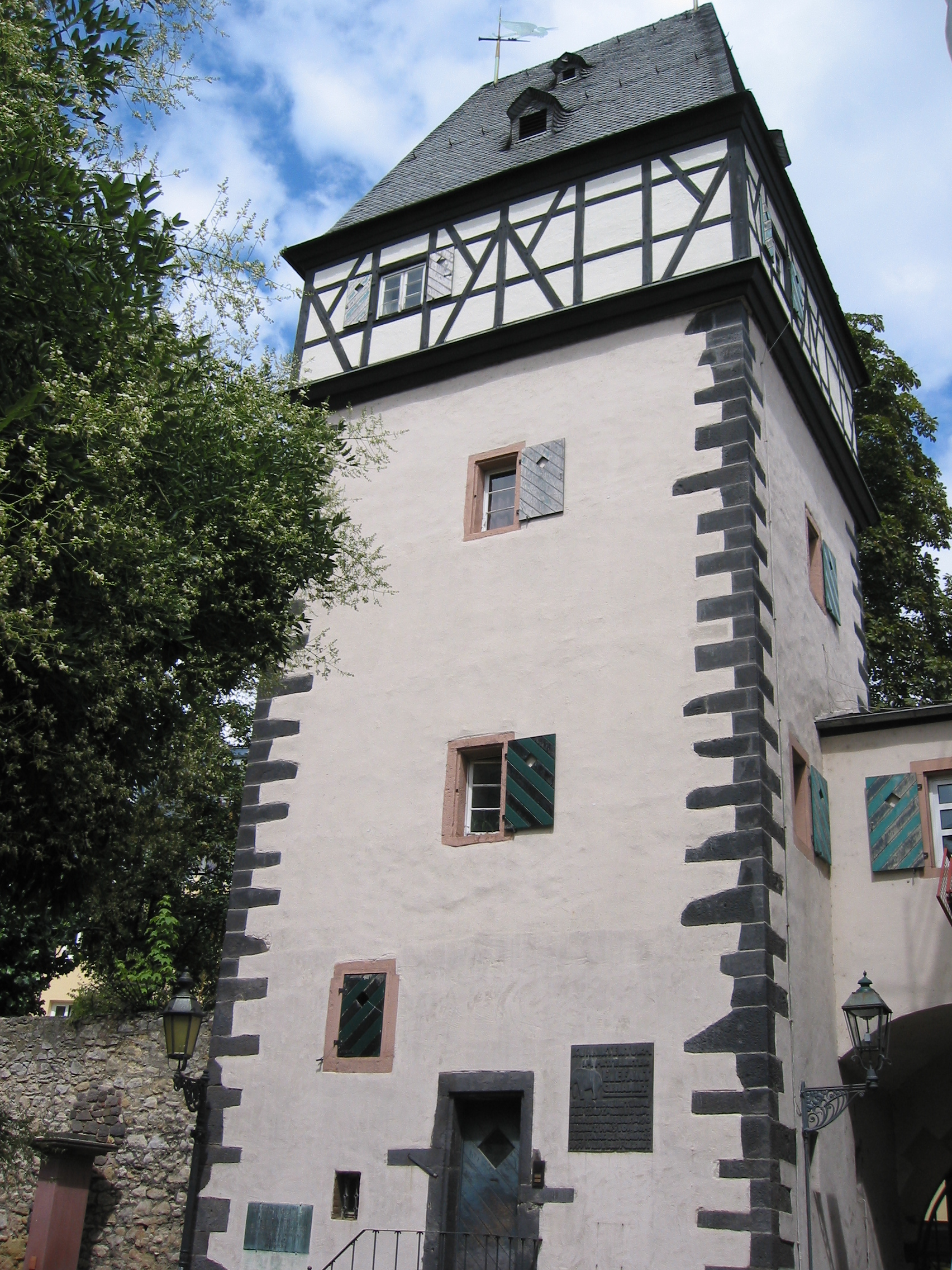 In this tower (Kuhhirtenturm - Frankfurt (Sachsenhausen) (next to the hostel of Wikimania 2005), the German composer Paul Hindemith lived and worked from 1923 to 1927. * Canon PowerShot S40